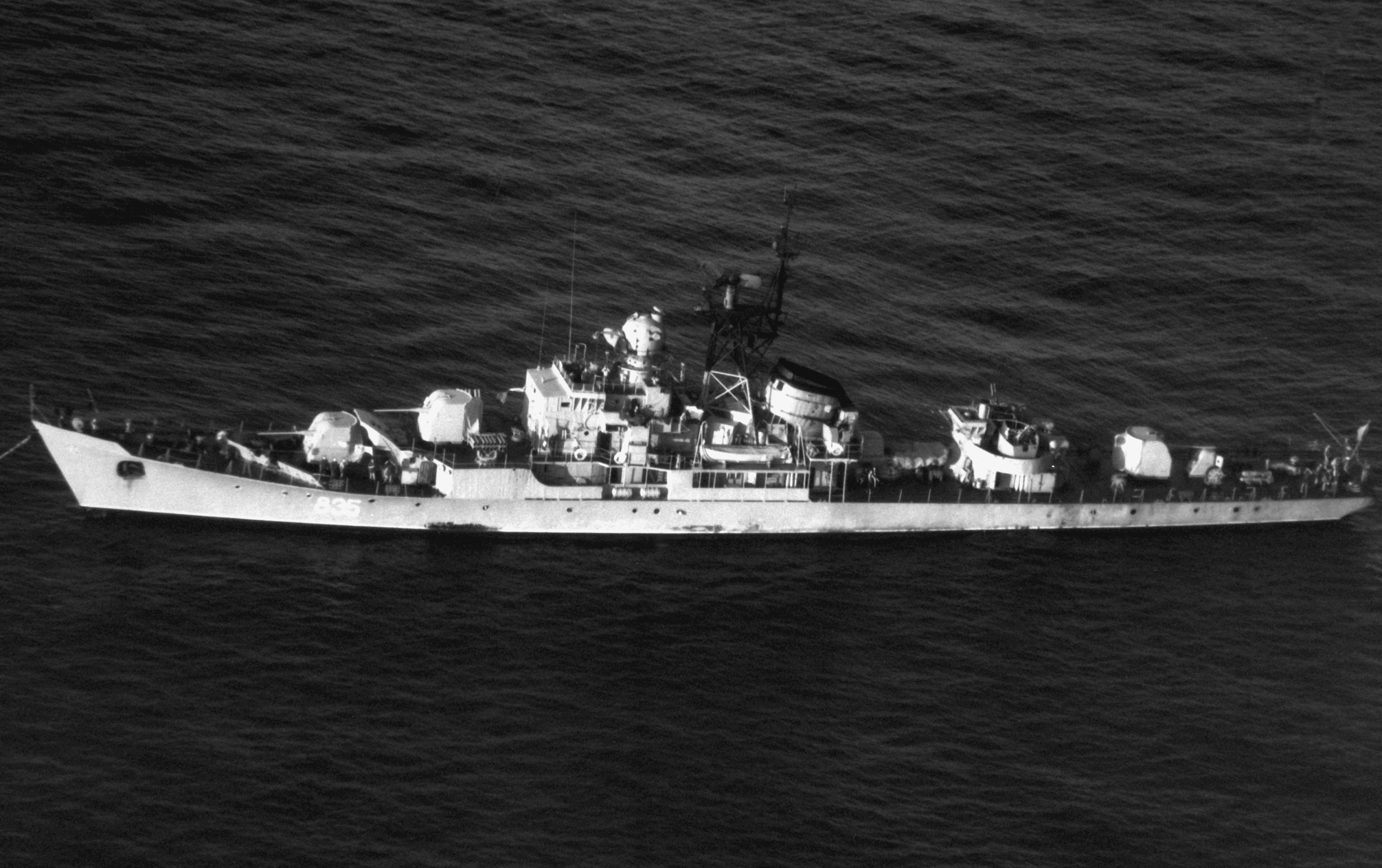 An elevated port bean view of the Soviet Riga class frigate SKR-57 at anchor.